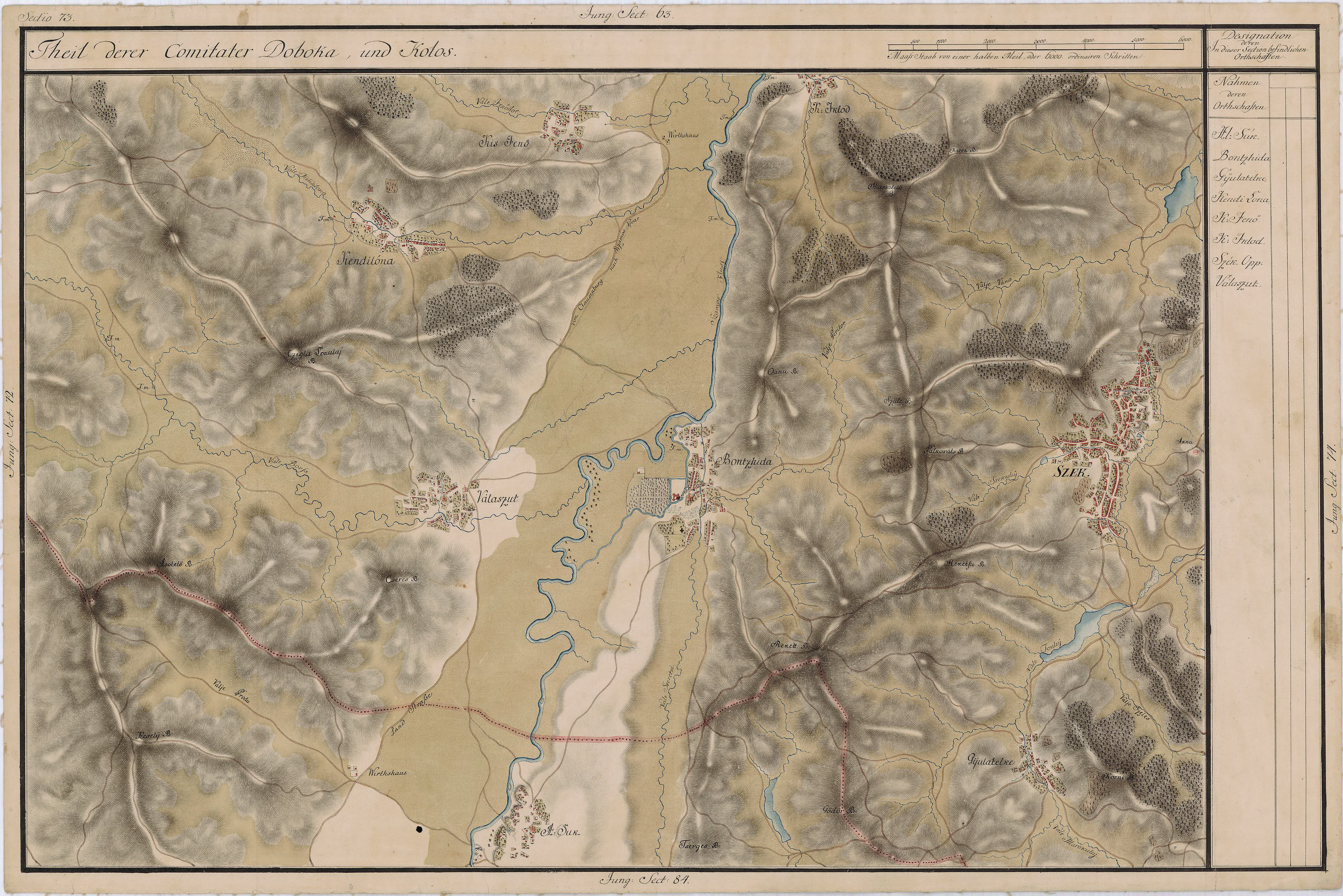 Grand Duchy of Transylvania, 1769-1773. Josephinische Landaufnahme pg.073